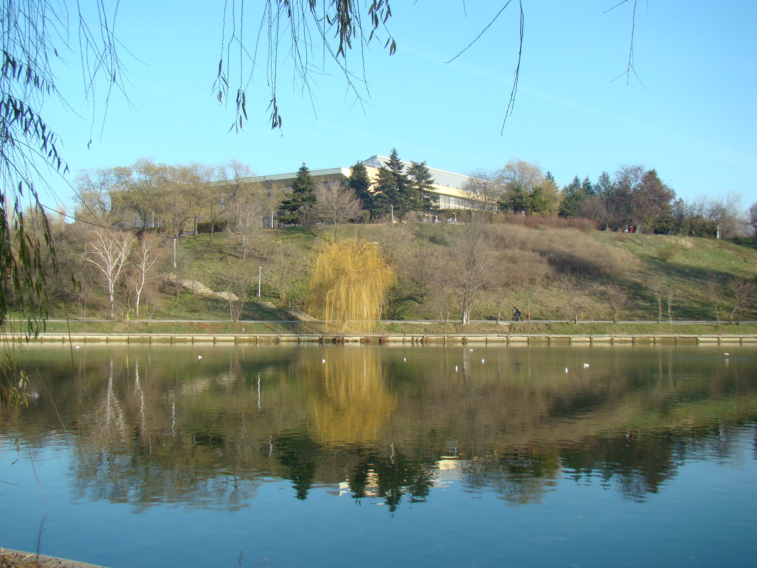 Tineretului Park in Bucharest